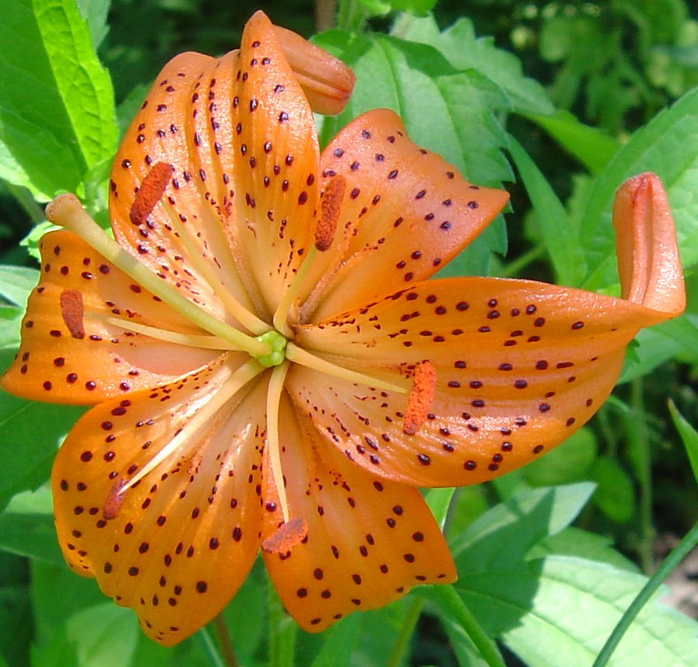 Cultivated plant, Toronto, Canada